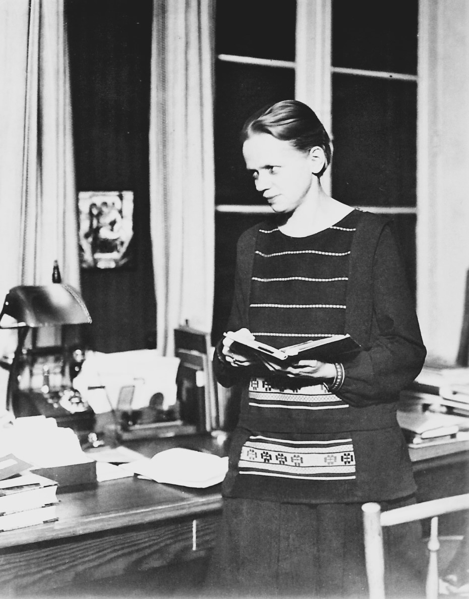 Meta Corssen (1894-1959), German philologist and librarian